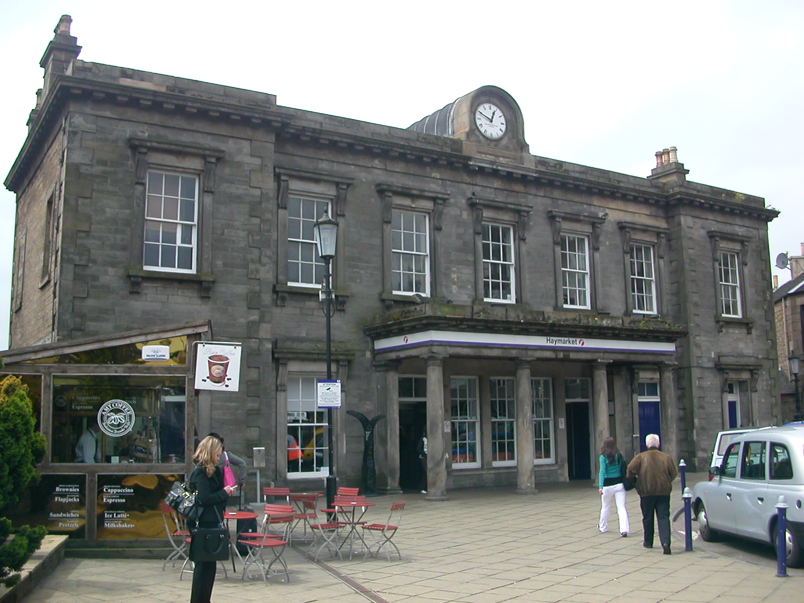 Close-up view of main station building at Haymarket station (Edinburgh). Photographed on 6th June 2007.